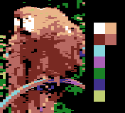 Sample image of simulated Commodore VIC-20 16-color (multicolor) screen